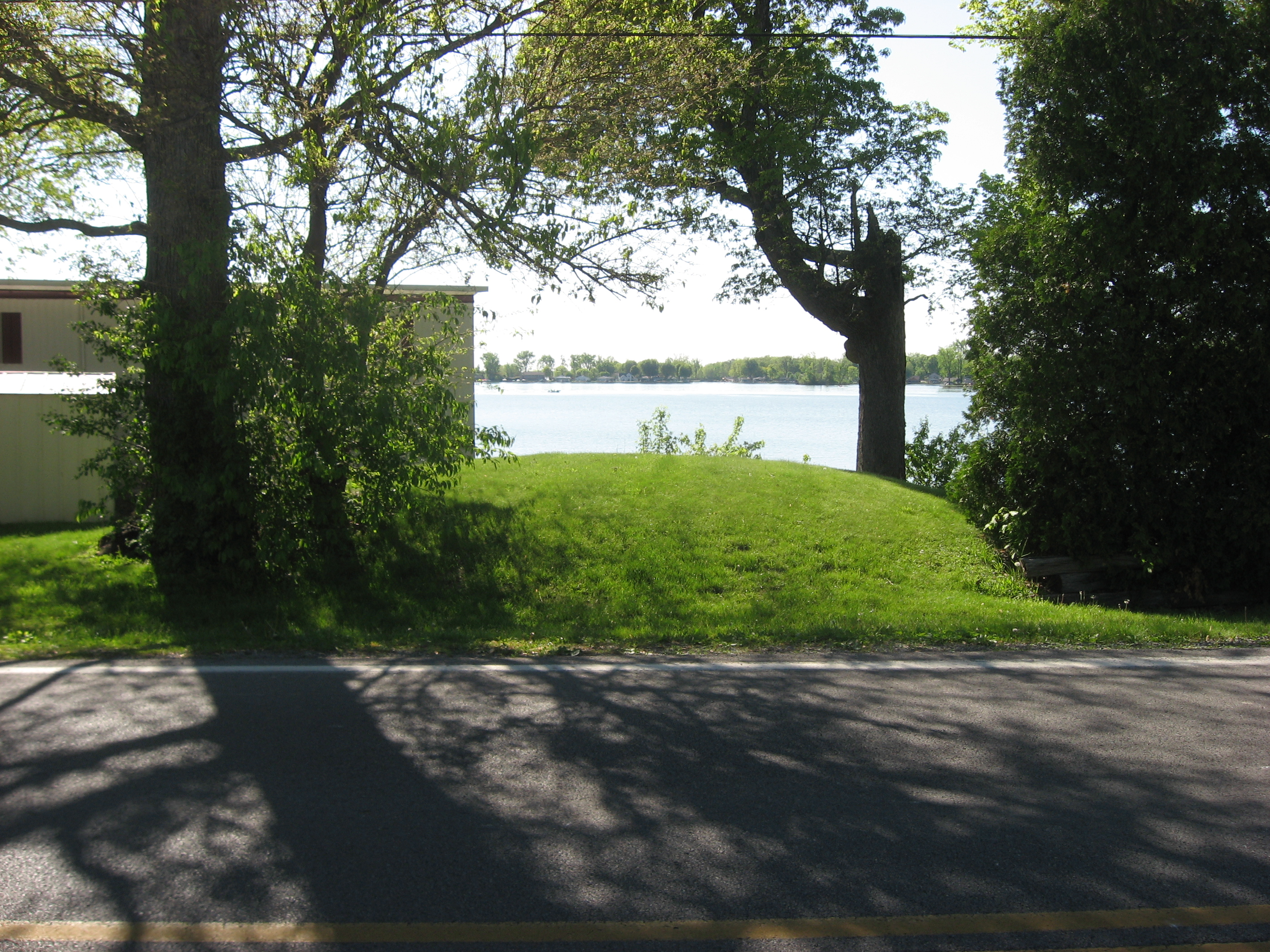 Eastern side of a small knoll located along State Route 368 at the northern end of Lake Ridge Island in Indian Lake in southeastern Stokes Township, Logan County, Ohio, United States. Once thought to have been built by prehistoric Hopewell Native Americans, it was considered to be a possible archaeological site and was grouped with three larger knolls as the Lake Ridge Island Mounds. Under this title, the knolls are listed as a historic district on the National Register of Historic Places.